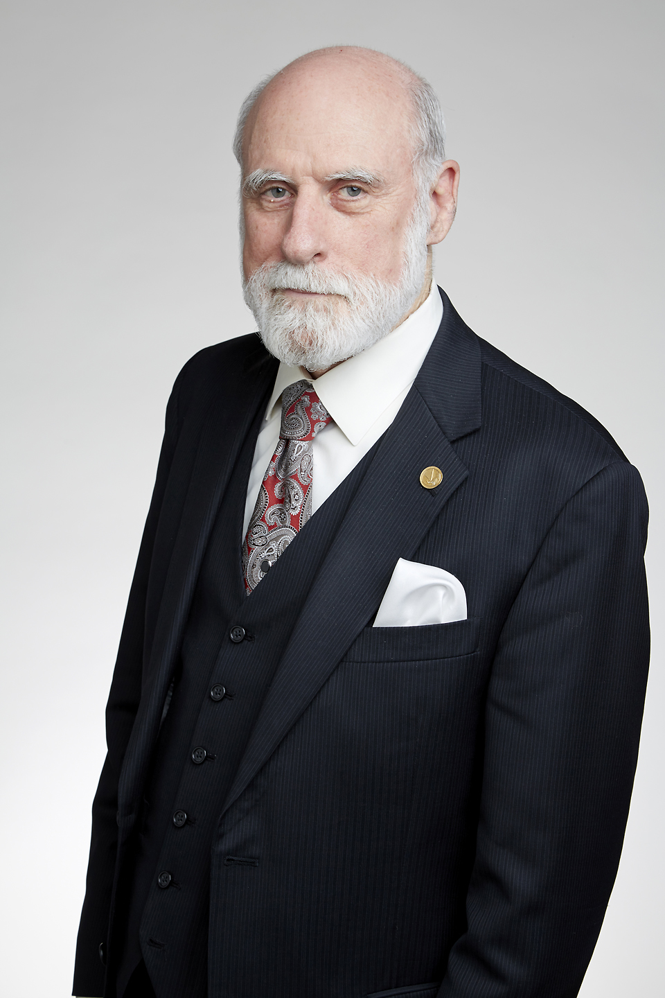 Vinton Gray Cerf (born June 23, 1943) is an American Internet pioneer, who is recognized as one of "the fathers of the Internet", with TCP/IP co-inventor Bob Kahn Attribution: The Royal Society